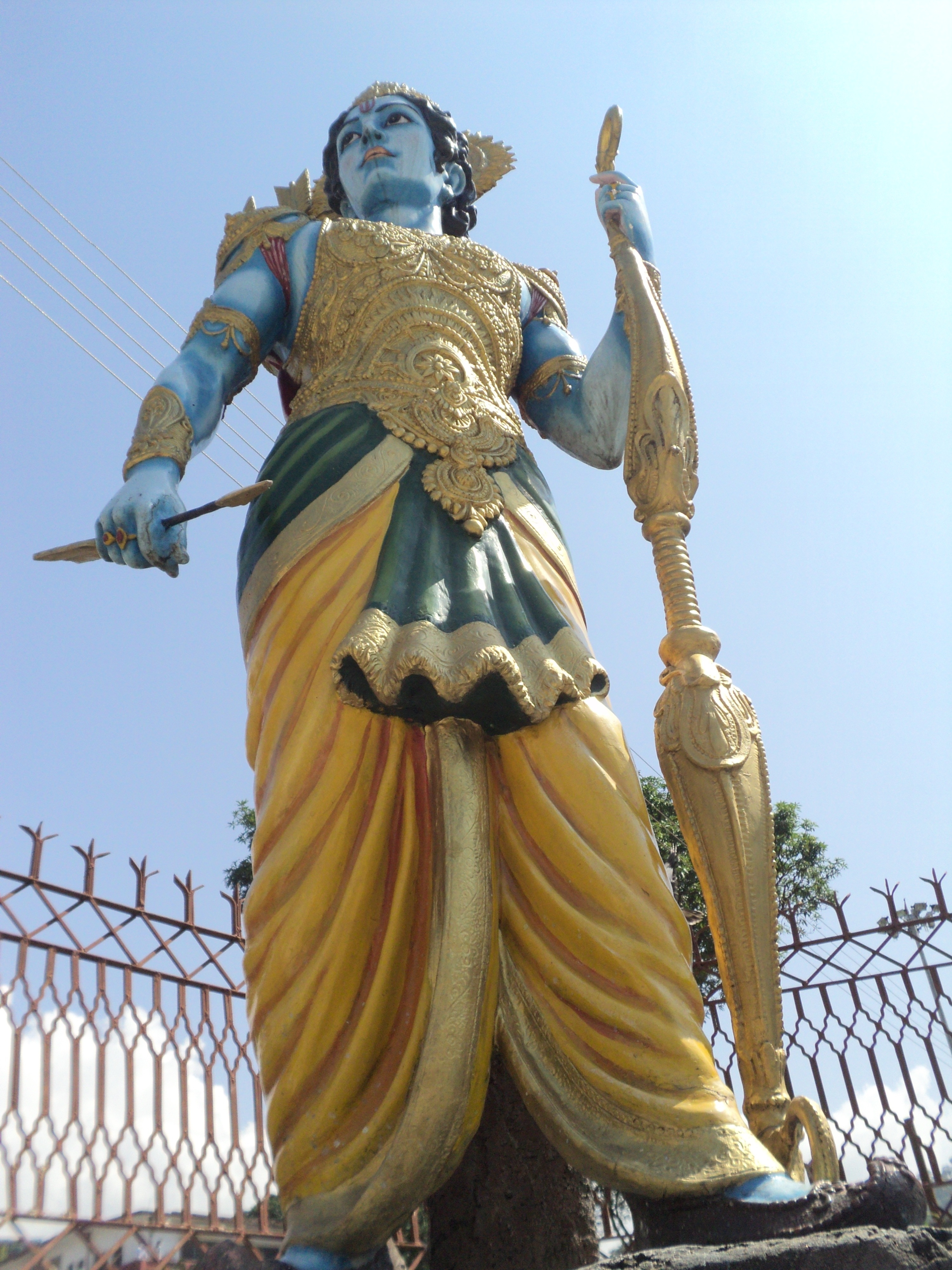 Lord Rama